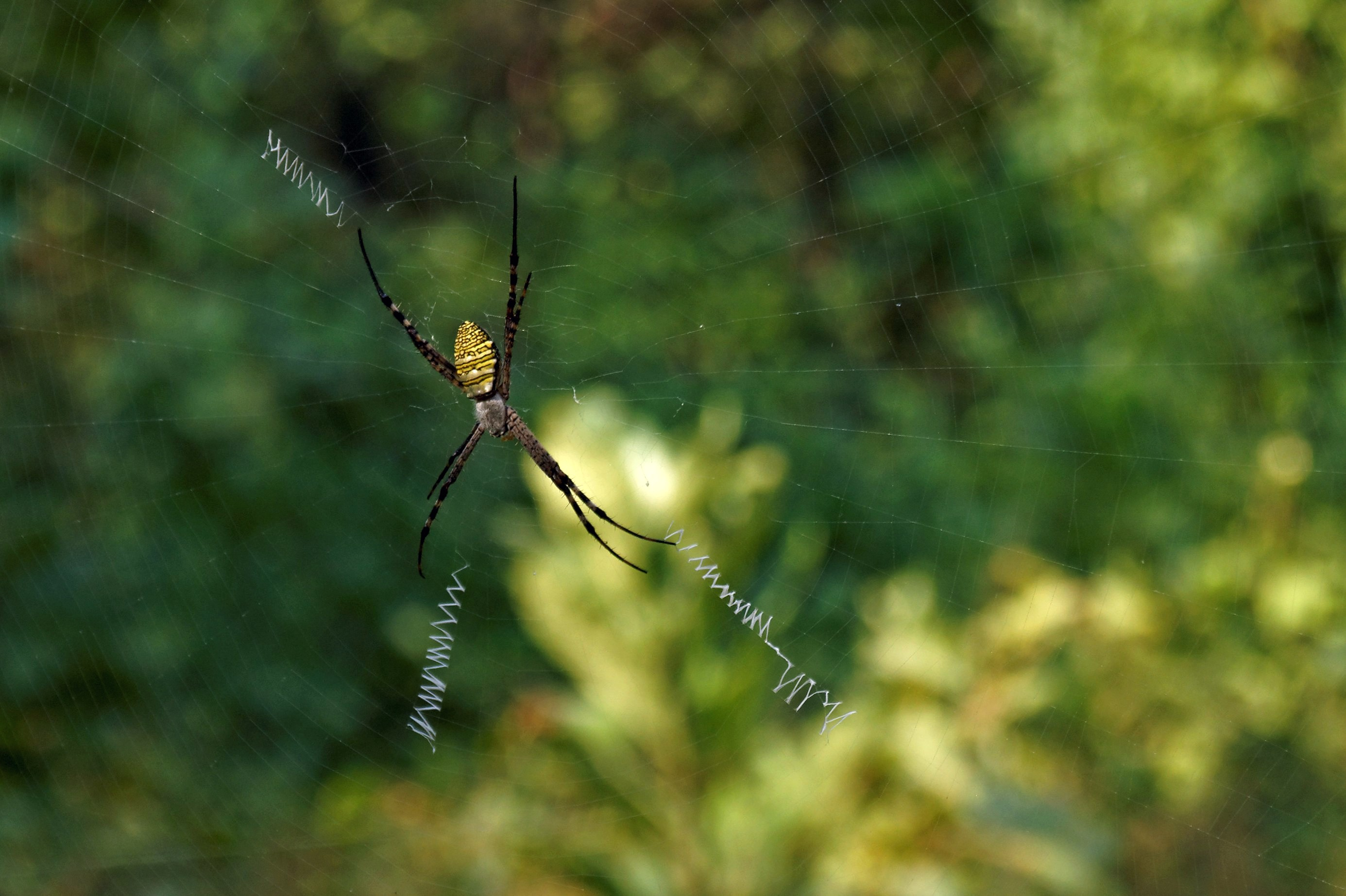 Signature Spider at Dang forest